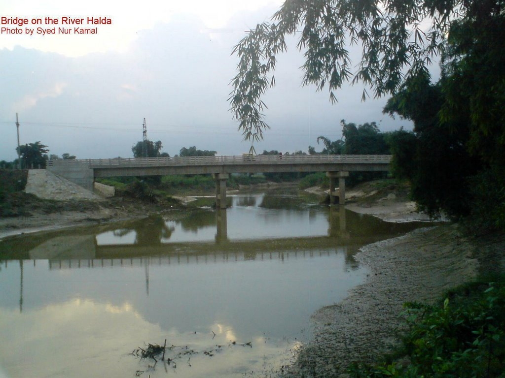 Halda Bridge